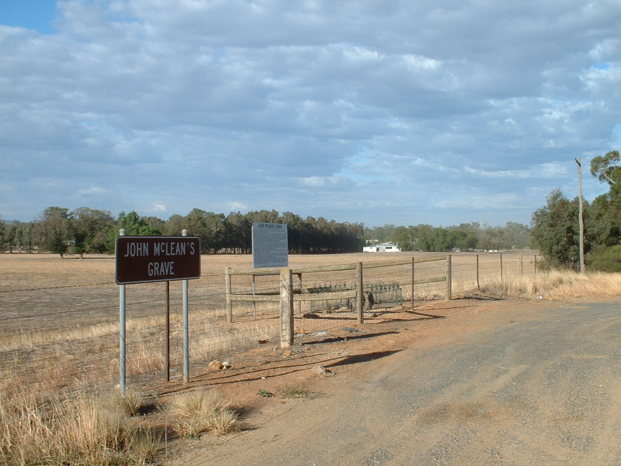 Heavily fenced John McLean's grave near Culcairn, New South Wales. McLean was shot dead by Australian bushranger, Mad Dan Morgan, on June 19, 1864.